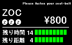 Japanese New Taximeter"ZOC"